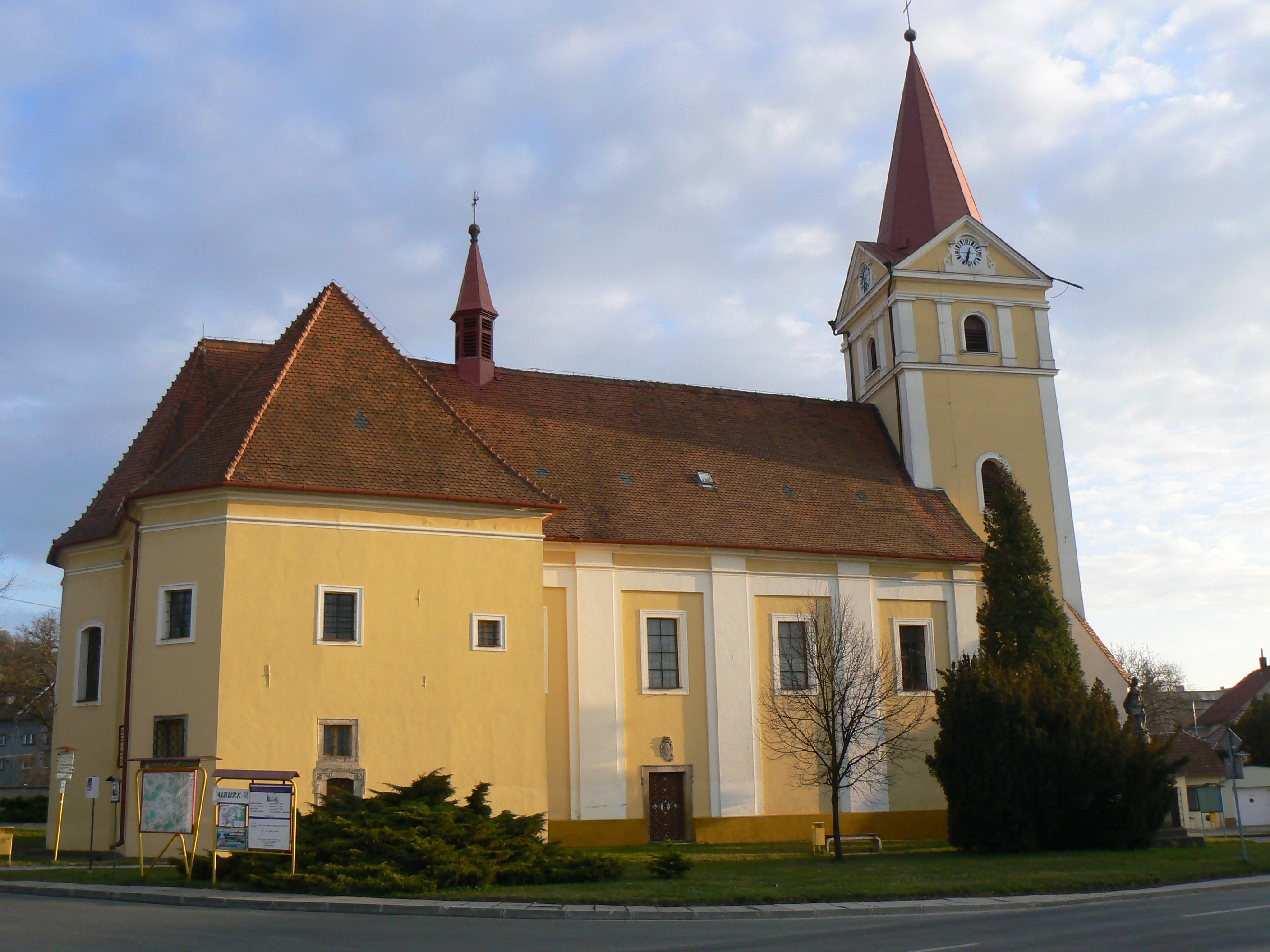 Koryčany in Kroměříž District, Czech Republic. Saint Lawrence church, north side.